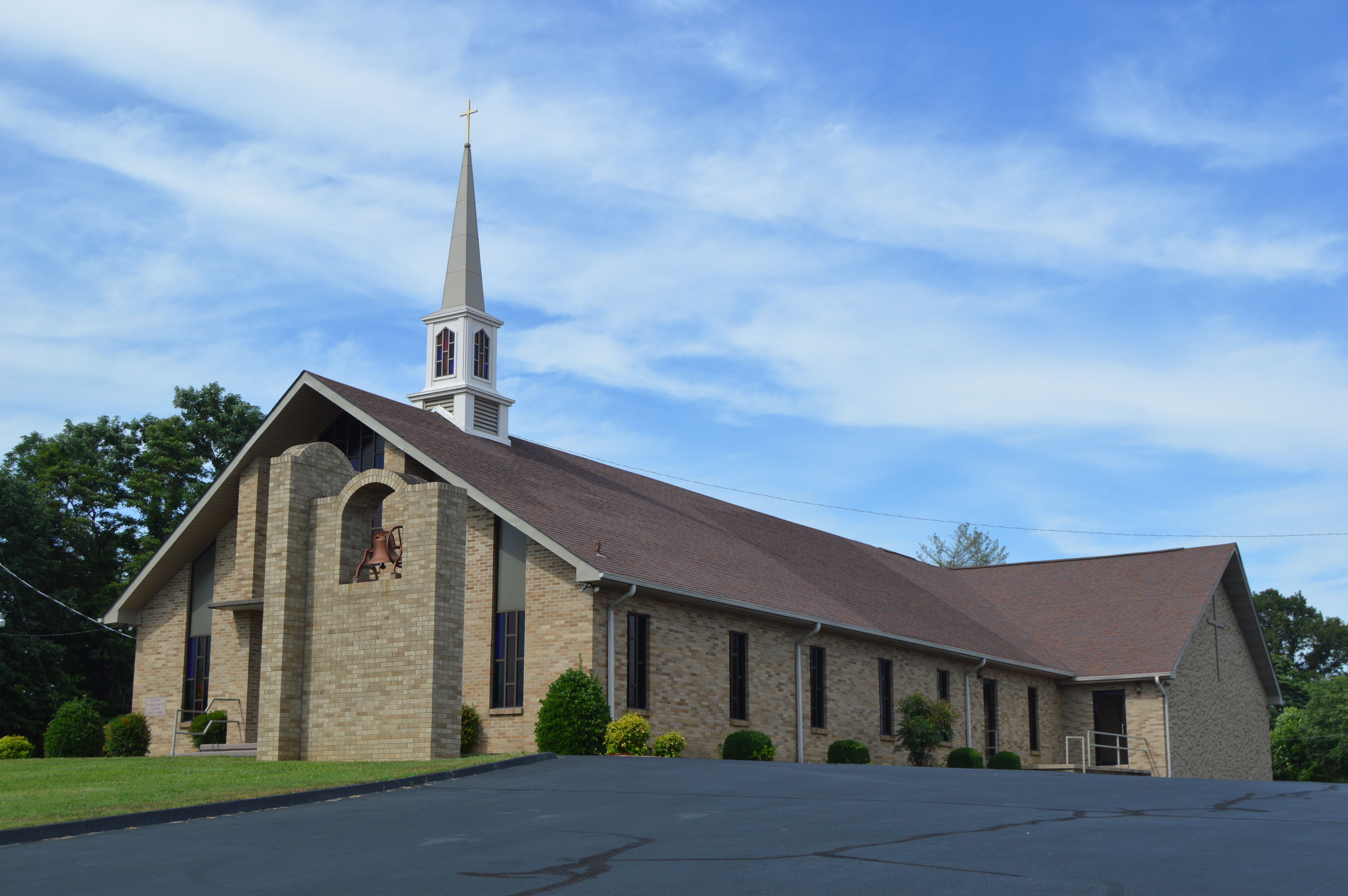 Front and southeastern side of the Fairview Separate Baptist Church, located on Kentucky Route 55 at Olga in Russell County, Kentucky, United States.